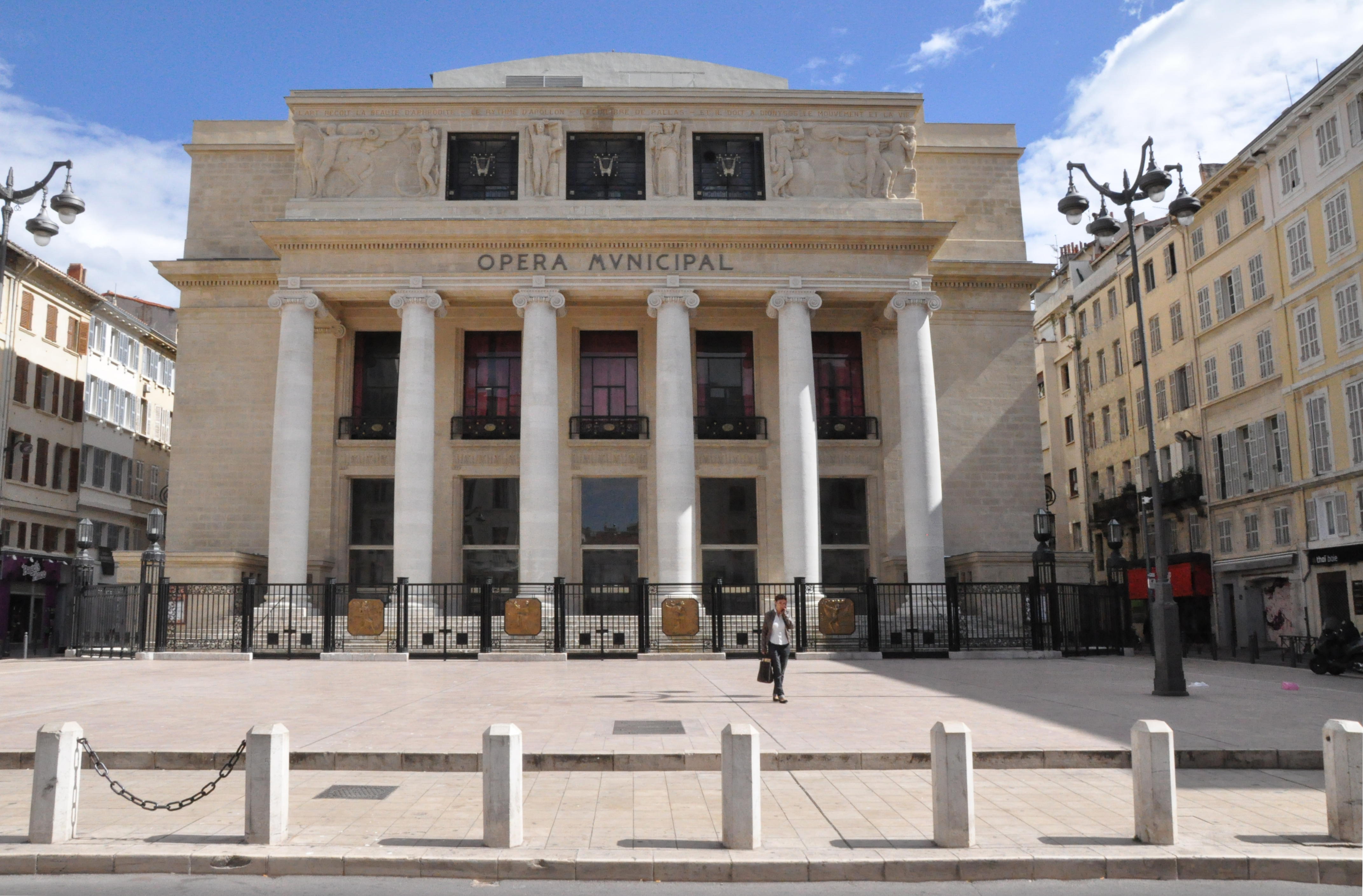 Marseille (France), the opera and the square before it